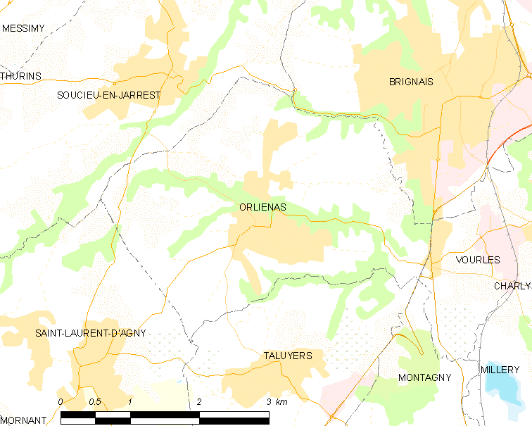 Map of French municipality